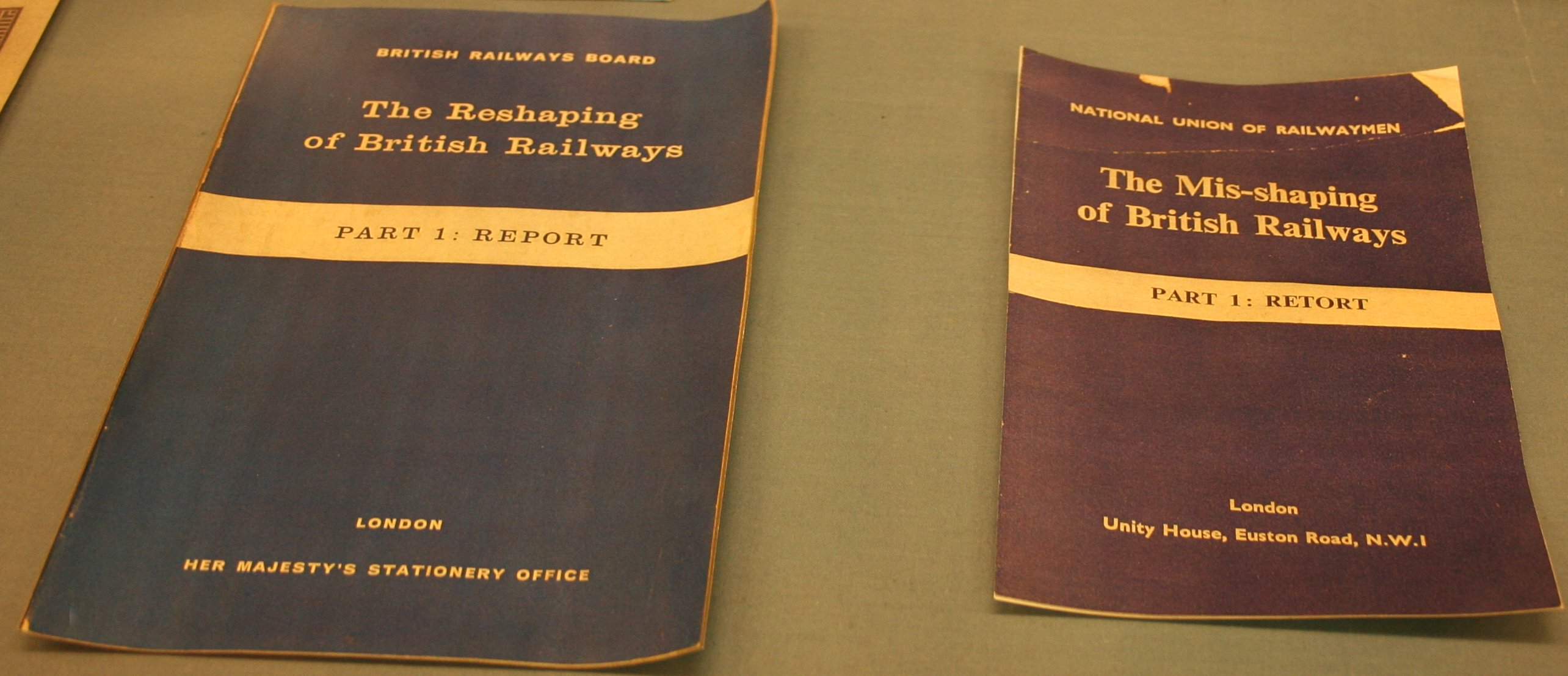 The British Railways Board's publication The Reshaping of British Railways, Part 1: Report, Beeching's first report, which famously recommended the closure of many uneconomic British railway lines. Many of the closures were implemented. This copy is displayed at the National Railway Museum in York beside a copy of the National Union of Railwaymen's published response, The Mis-shaping of British Railways, Part 1: Retort.